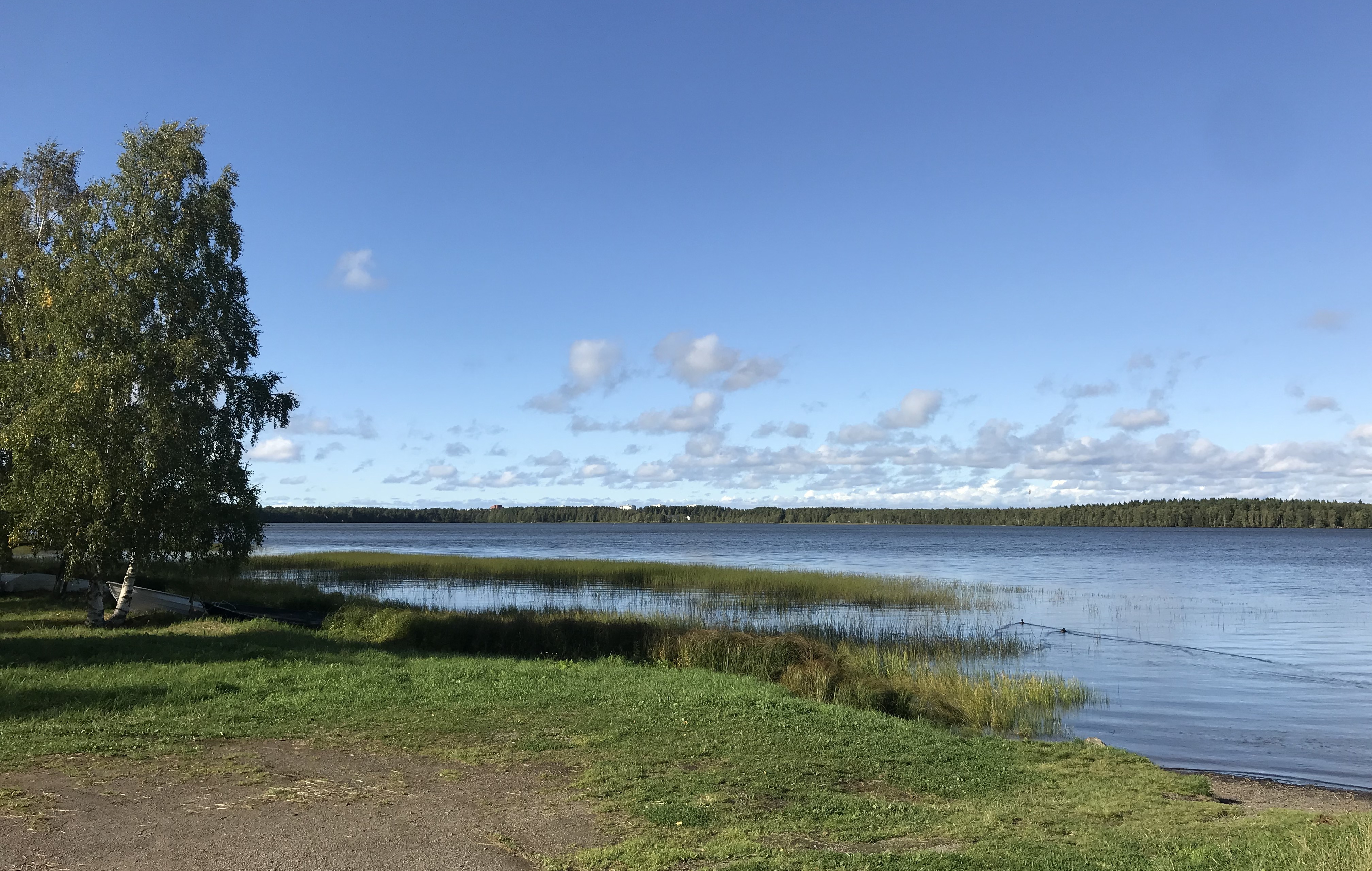 Lake Pyykösjärvi in Oulu, in September 2019